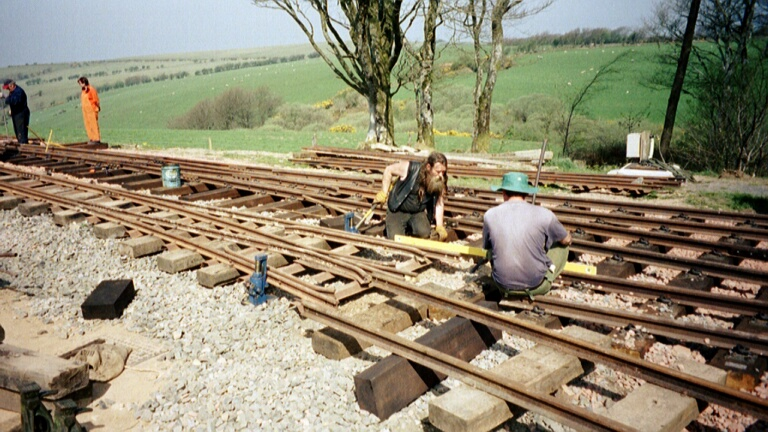 Tracklaying at Woody Bay, Lynton & Barnstaple railway, Spring 2003 Photograph taken by: Martyn de Young